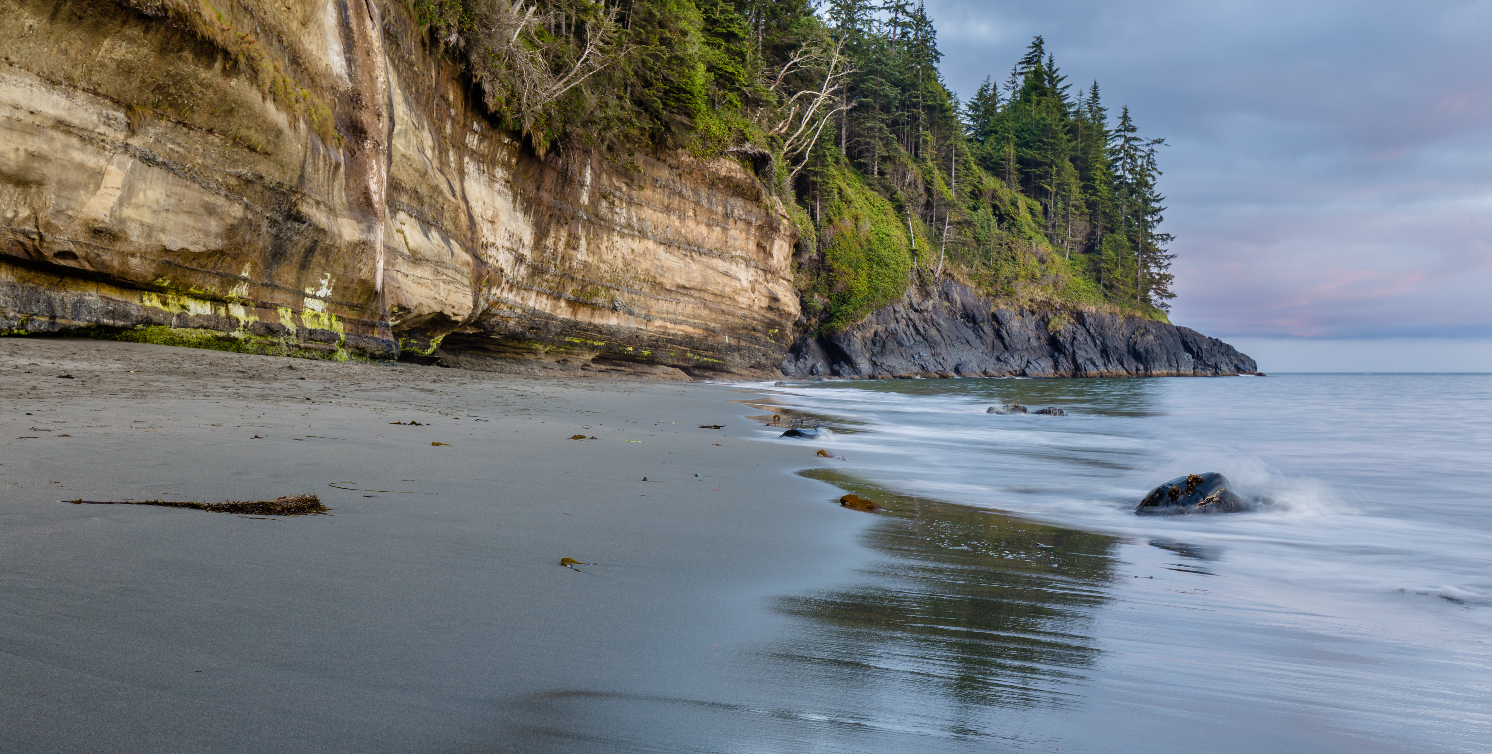 Mystic Beach after sunset. The beach is located in Juan de Fuca Provincial Park, Vancouver Island, British Columbia, Canada